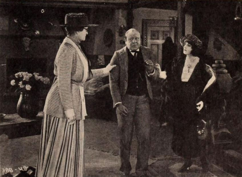 Still from the American comedy drama film Their Mutual Child (1920) with Margaret Campbell, Harvey Clark, and Margarita Fischer, on page 100 of the December 18, 1920 Exhibitors Herald.